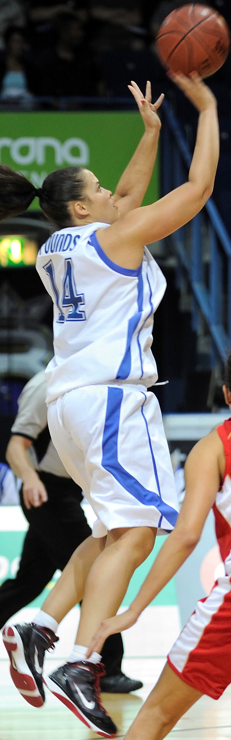 Finnish basketball player Dionne Pounds playing against Montenegro at Barona Arena in Espoo, Finland.